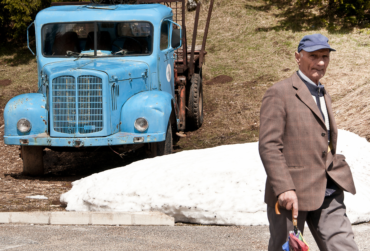 A blue truck and an old man.